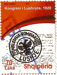 A 2010 Albanian 70 Lek stamp commemorating the Congress of Lushnja in 1920.